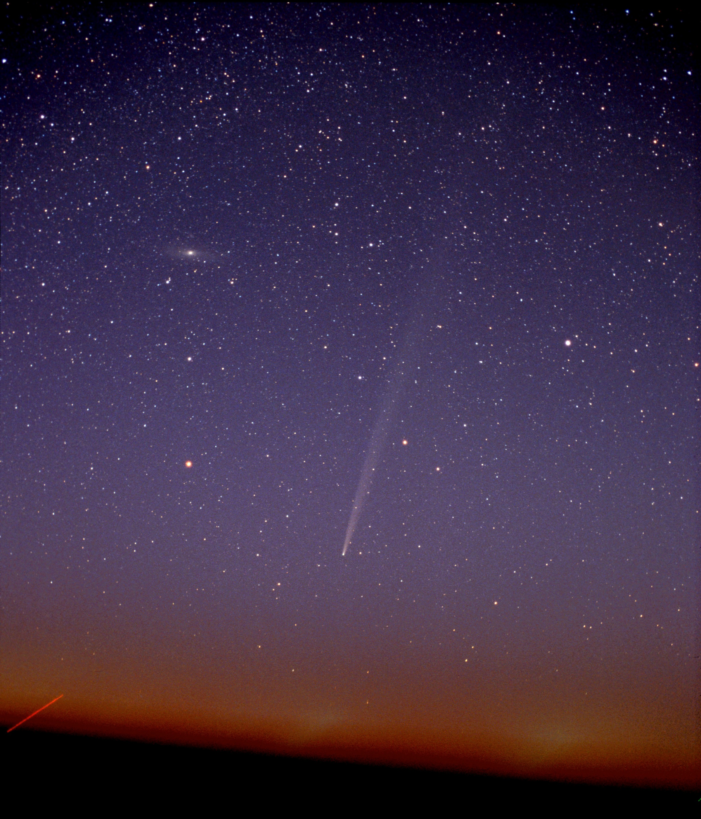 Comet Bradfield, formally C/2004 F4 (Bradfield), from Cactus Flats in NE Colorado. Just before sunrise. Tail is about 12* long.